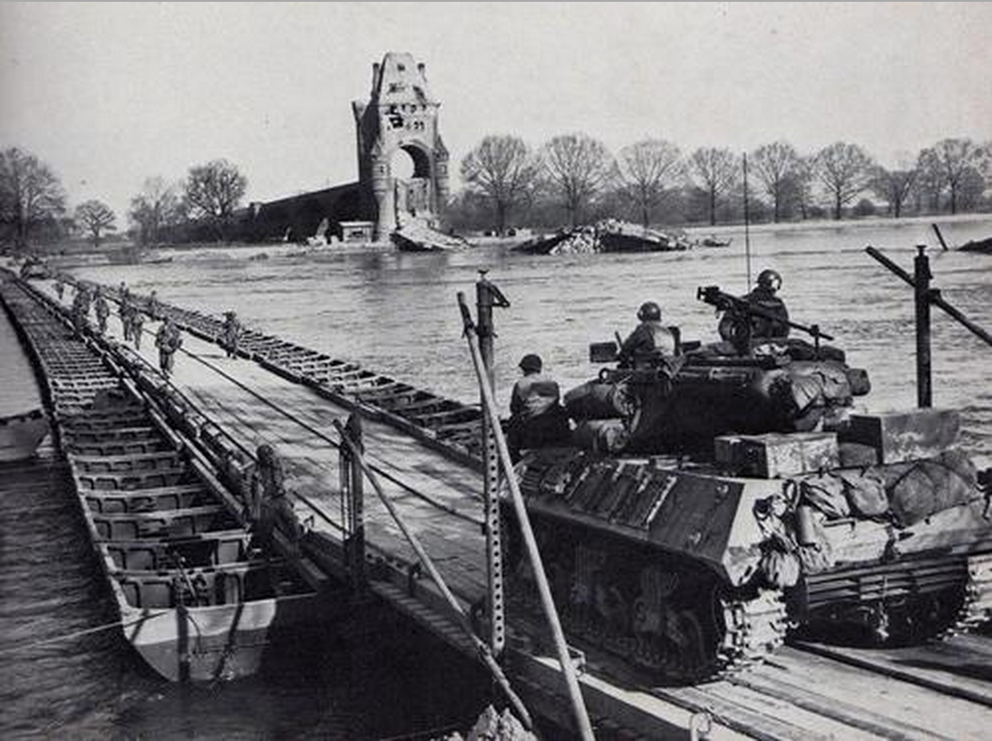 US Army crossing the Rhine River on pontoon supported treadway bridge at Worms, March, 1945